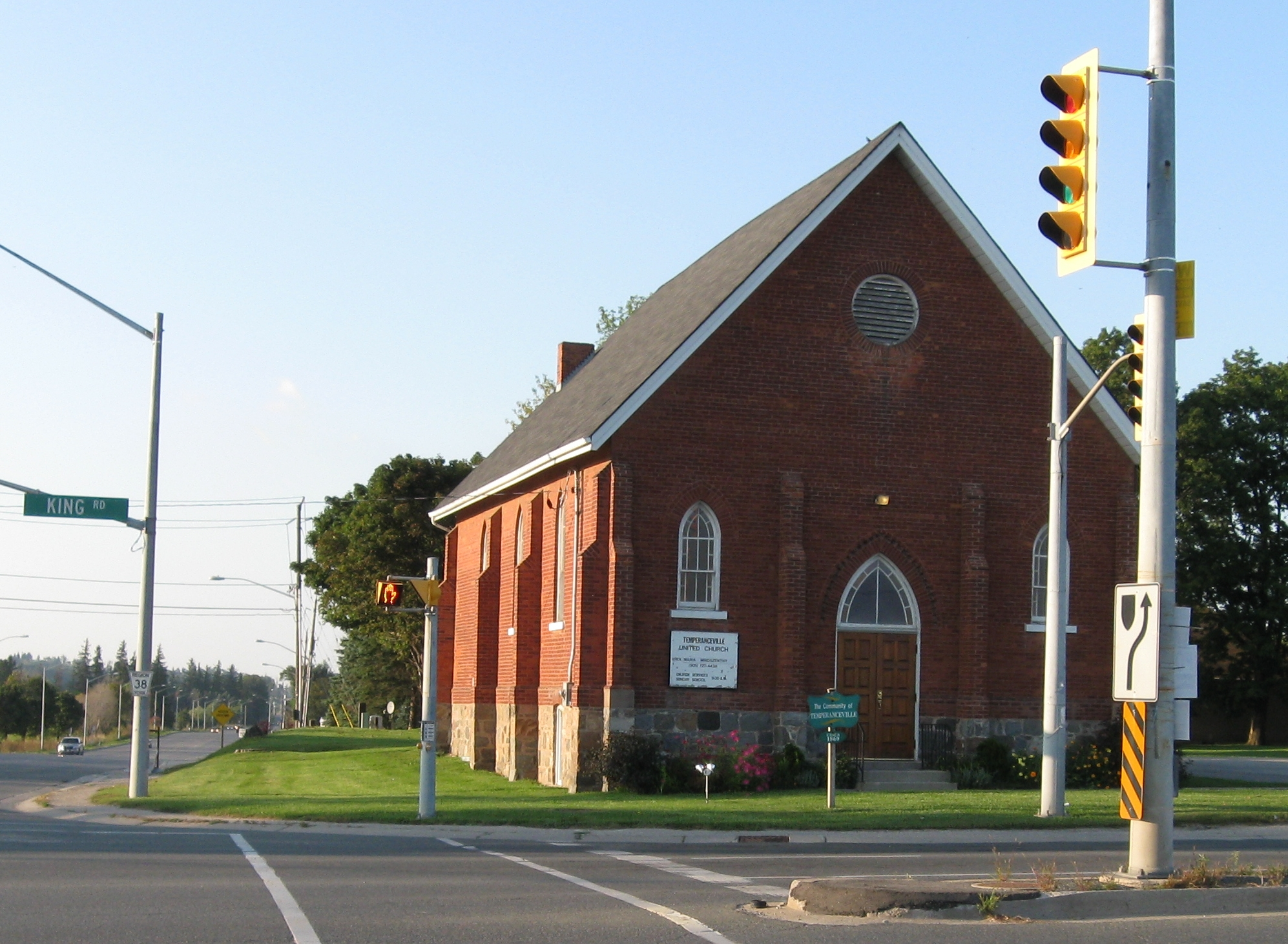 The Temperanceville United Church at the corner of King and Bathurst Street in Temperanceville, Ontario, Canada, in the northern part of Richmond Hill. A small cemetery is located in the township of King, across Bathurst Street to the left in the photograph.